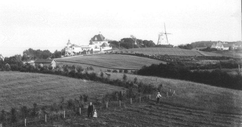 Tibberup Mølle in Helsingør, Denmark